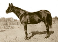 Kingston (1884-1912) was an American Thoroughbred racehorse that won 89 races